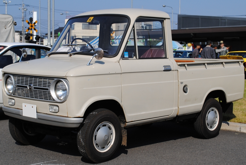 Suzuki Carry.